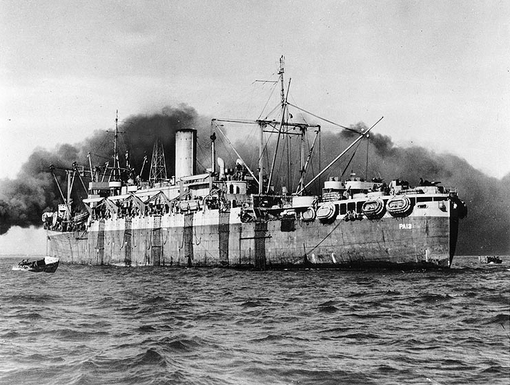 The U.S. Navy attack transport USS Joseph T. Dickman (APA-13) at anchor circa 1943. The nets on the side of the ship indicate that she is preparing to disembark troops. Joseph T. Dickman was manned by the U.S. Coast Guard.